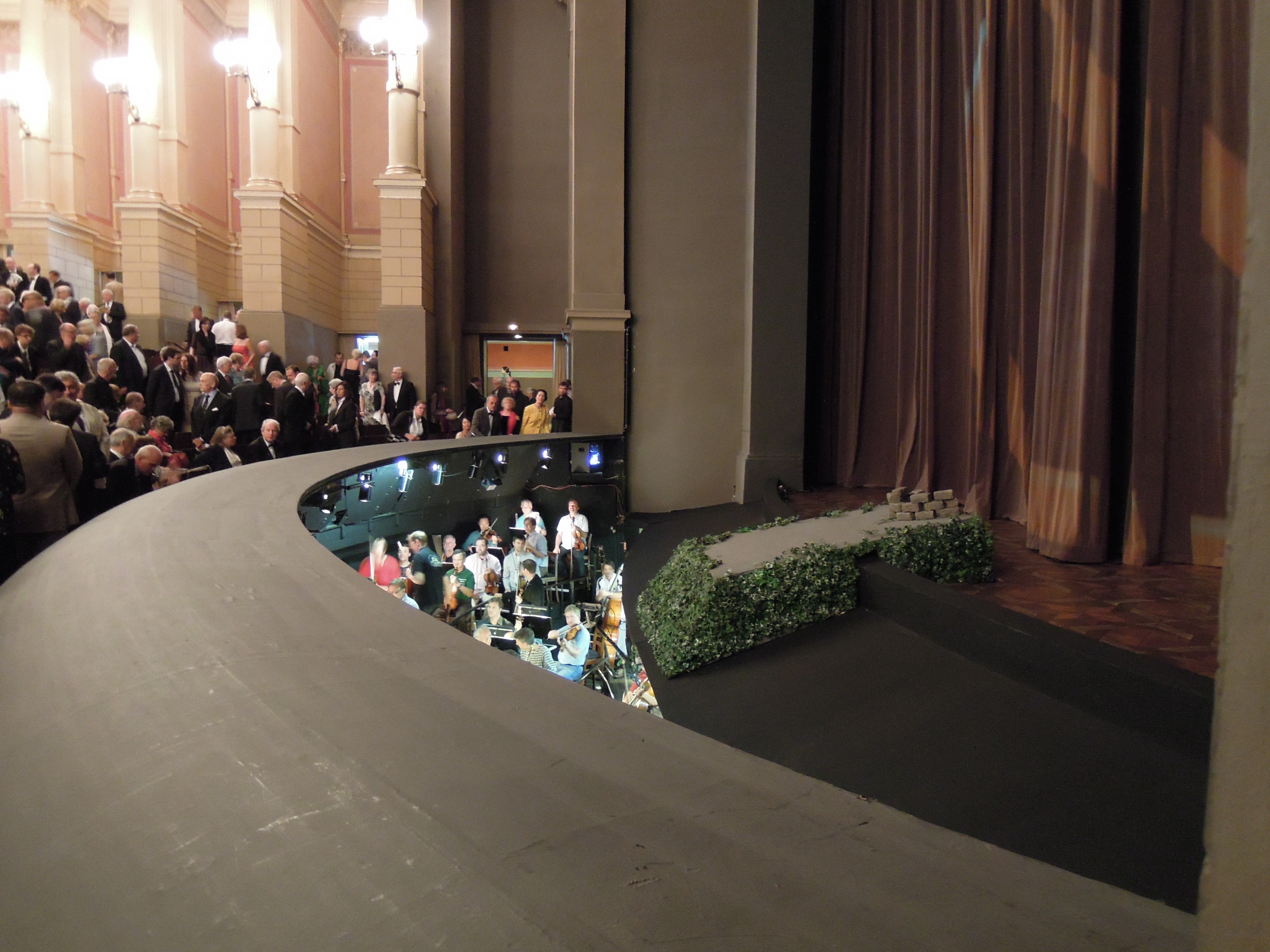 The Bayreuth Festspielhaus orchestra pit is covered by a hood so that the orchestra is completely invisible to the audience. The picture was shot during an interval between acts of Stefan Herheim's production of Richard Wagner's Parsifal.